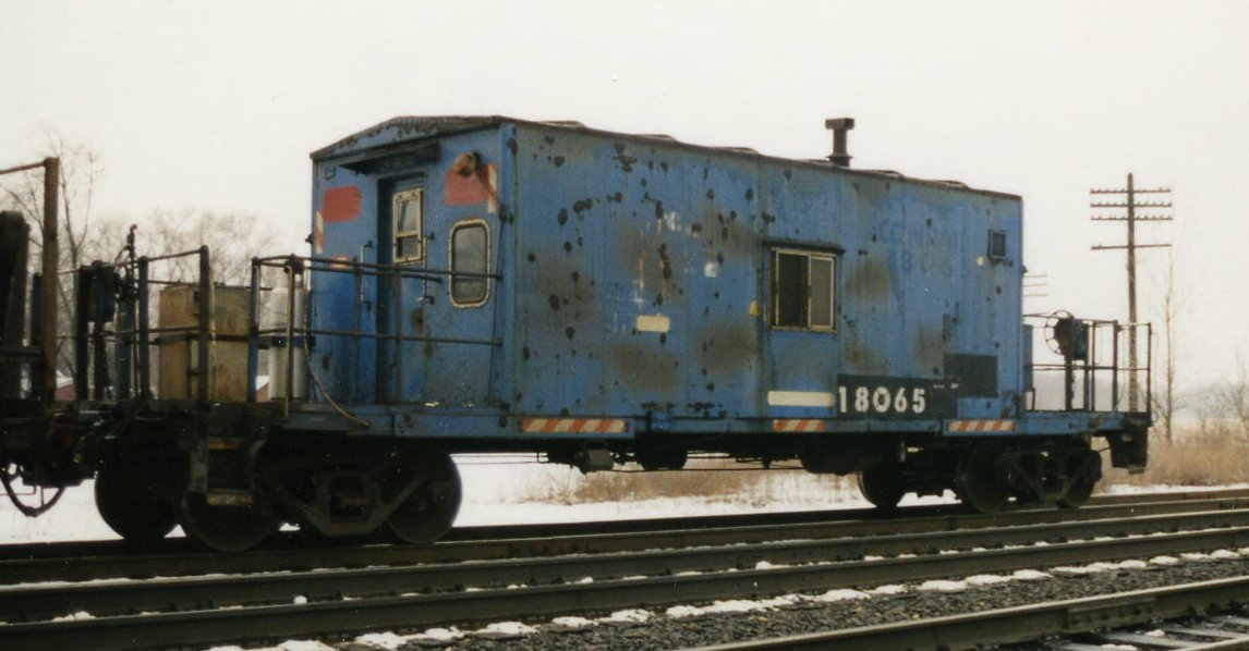 Conrail transfer caboose 18065 passing through Porter, Indiana.